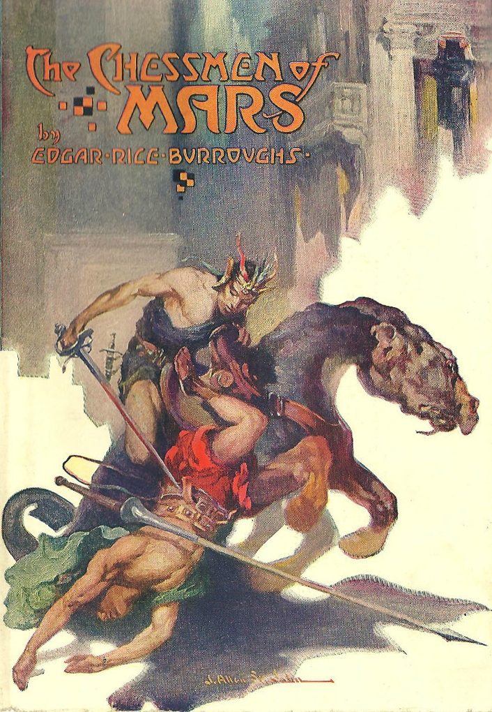 Cover art by J. Allen St. John from The Chessmen of Mars by Edgar Rice Burroughs, McClurg, 1922.